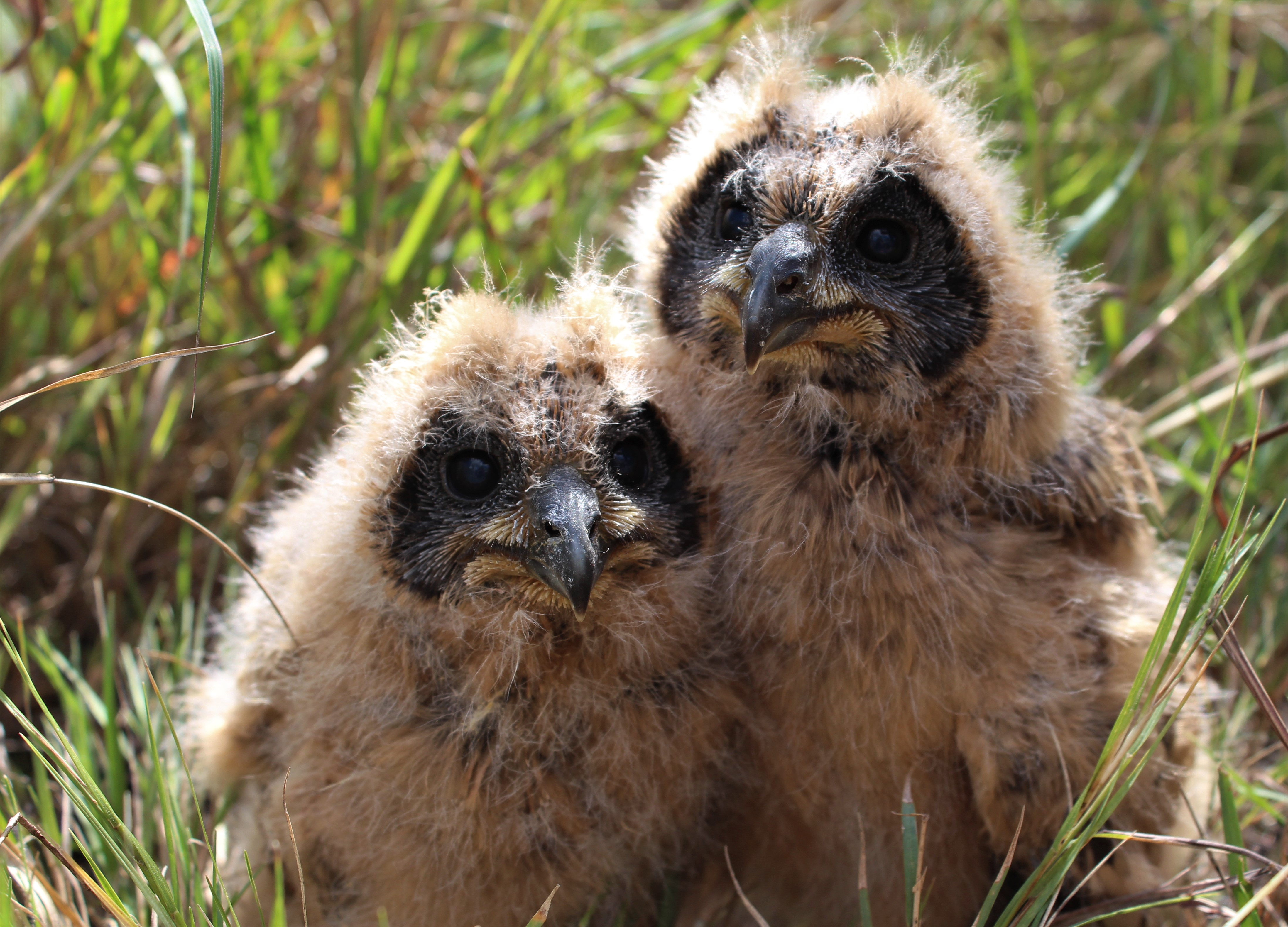 Two Marsh Owlets